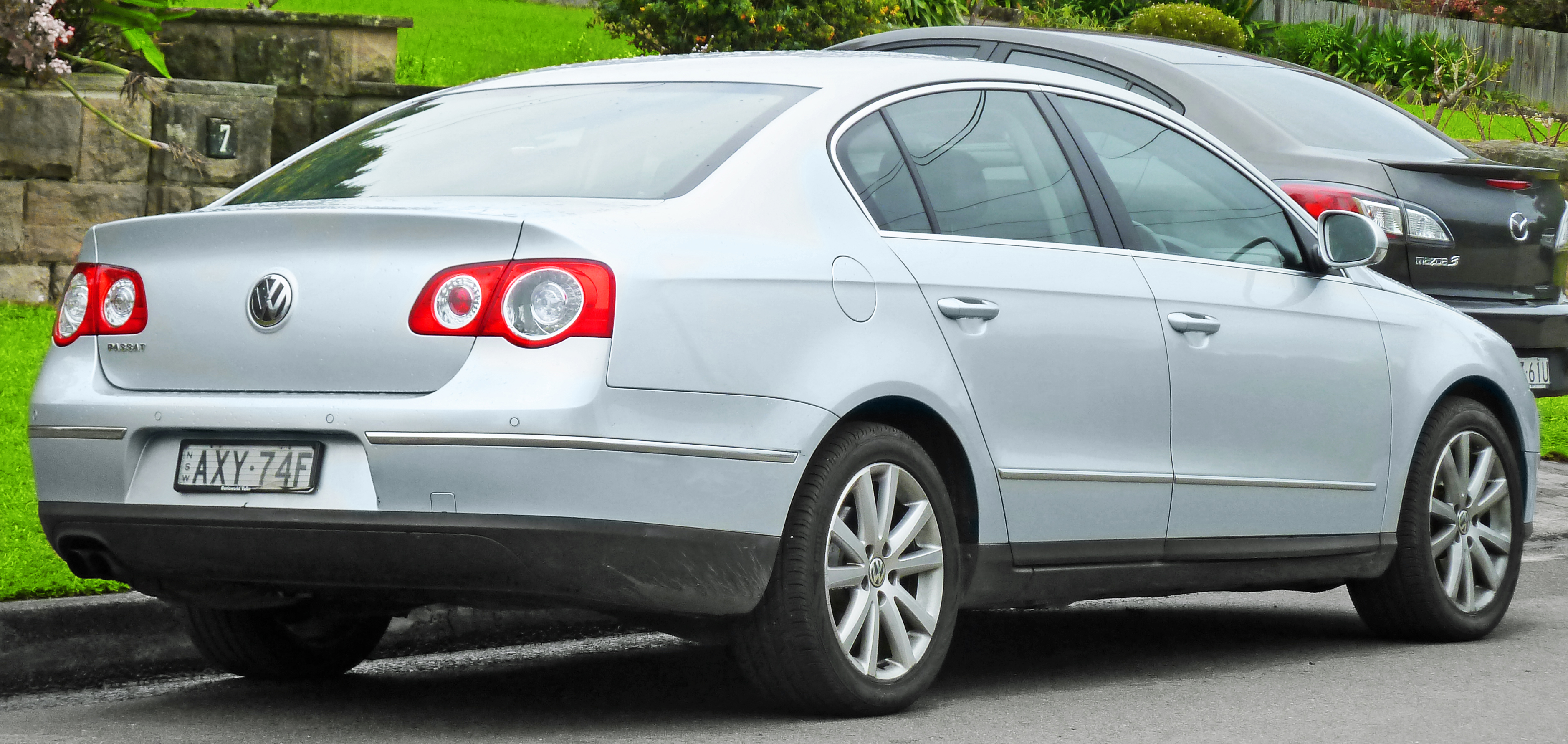 2006–2010 Volkswagen Passat (3C) sedan. Photographed in Roseville, New South Wales, Australia.